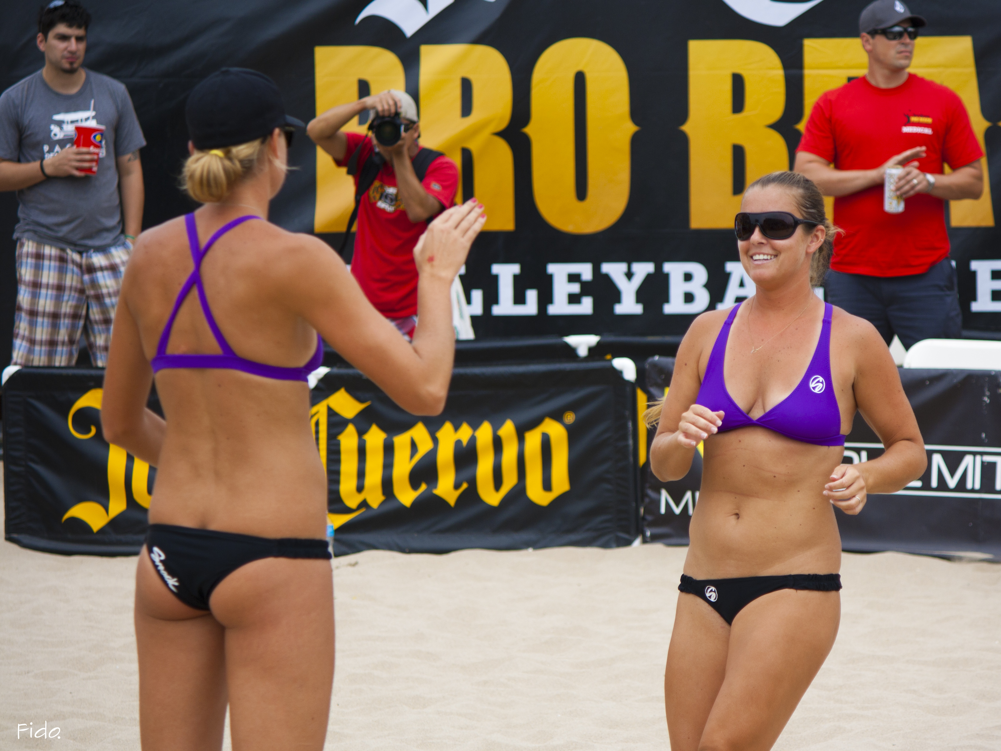 the US beach volleyball players Jennifer Fopma (left) and Brooke Sweat (right) at a tournament in Hermosa Beach